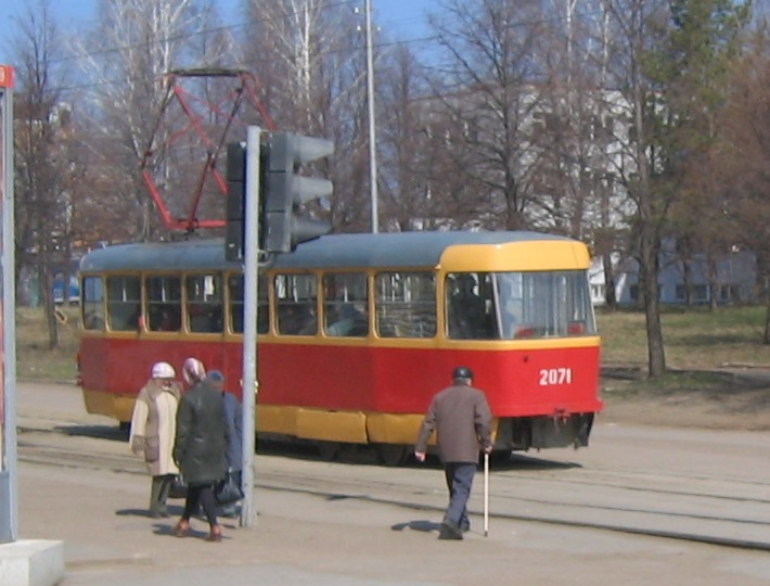 Tram in Ufa, Russia